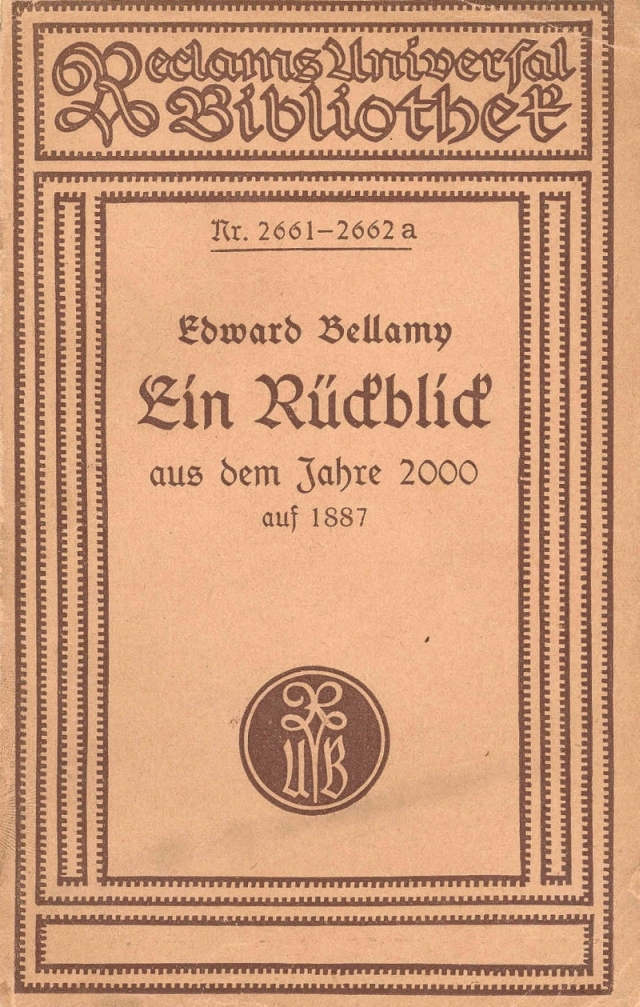 Edward Bellamy: “Looking Backward: 2000-1887”.